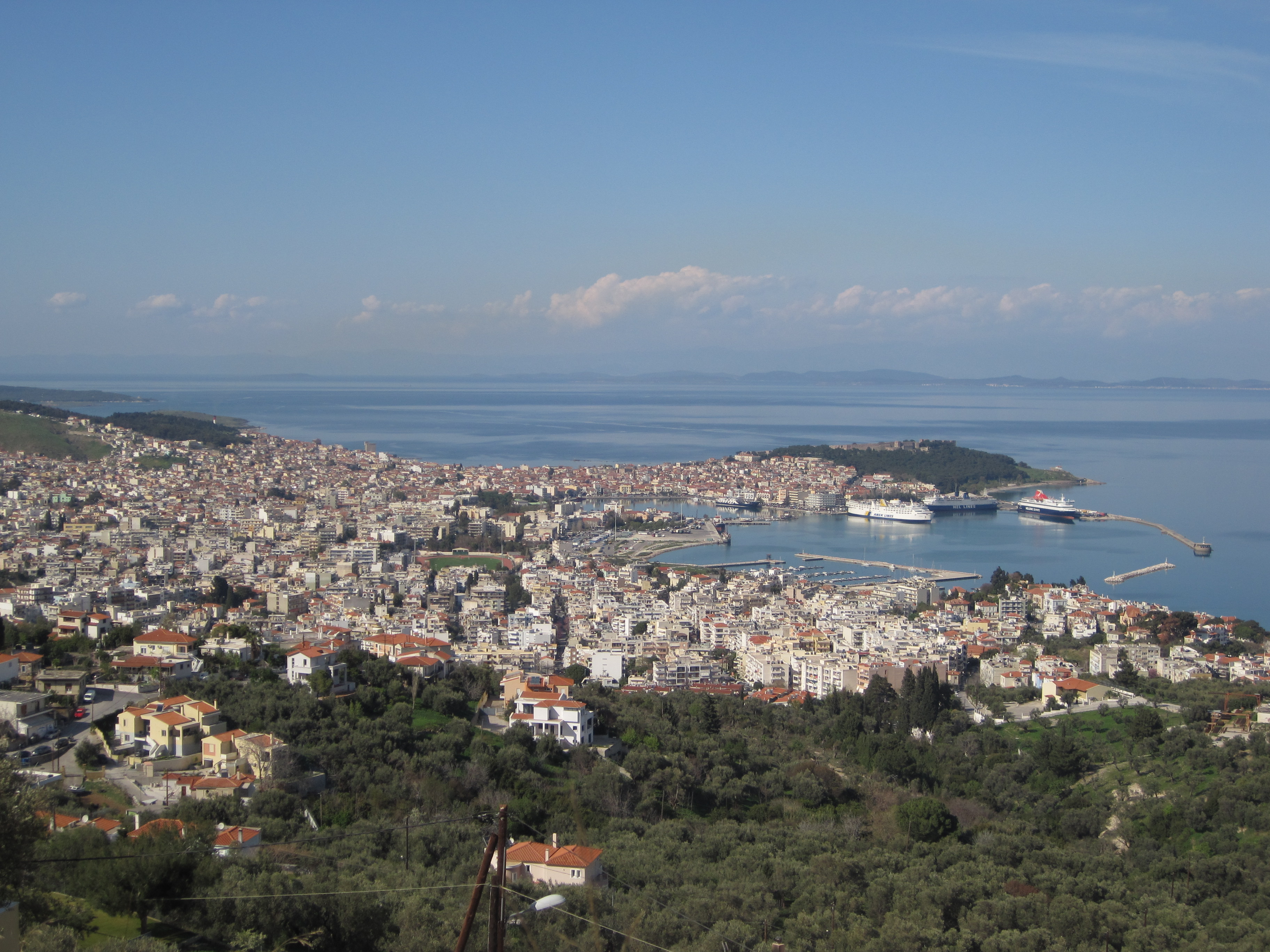 View of Mytilene from the south.